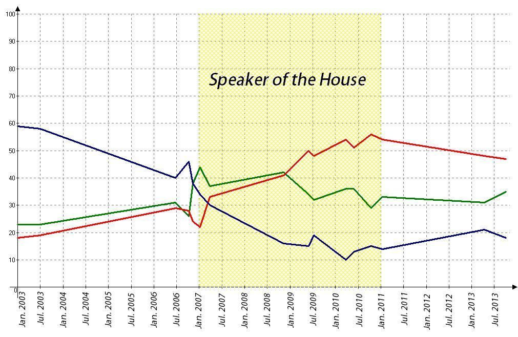 Nancy Pelosi Approval/Disapproval Ratings. Data from Gallup poll: approve disapprove unsure/never heard of during that period Nancy Pelosi was the Speaker of the House